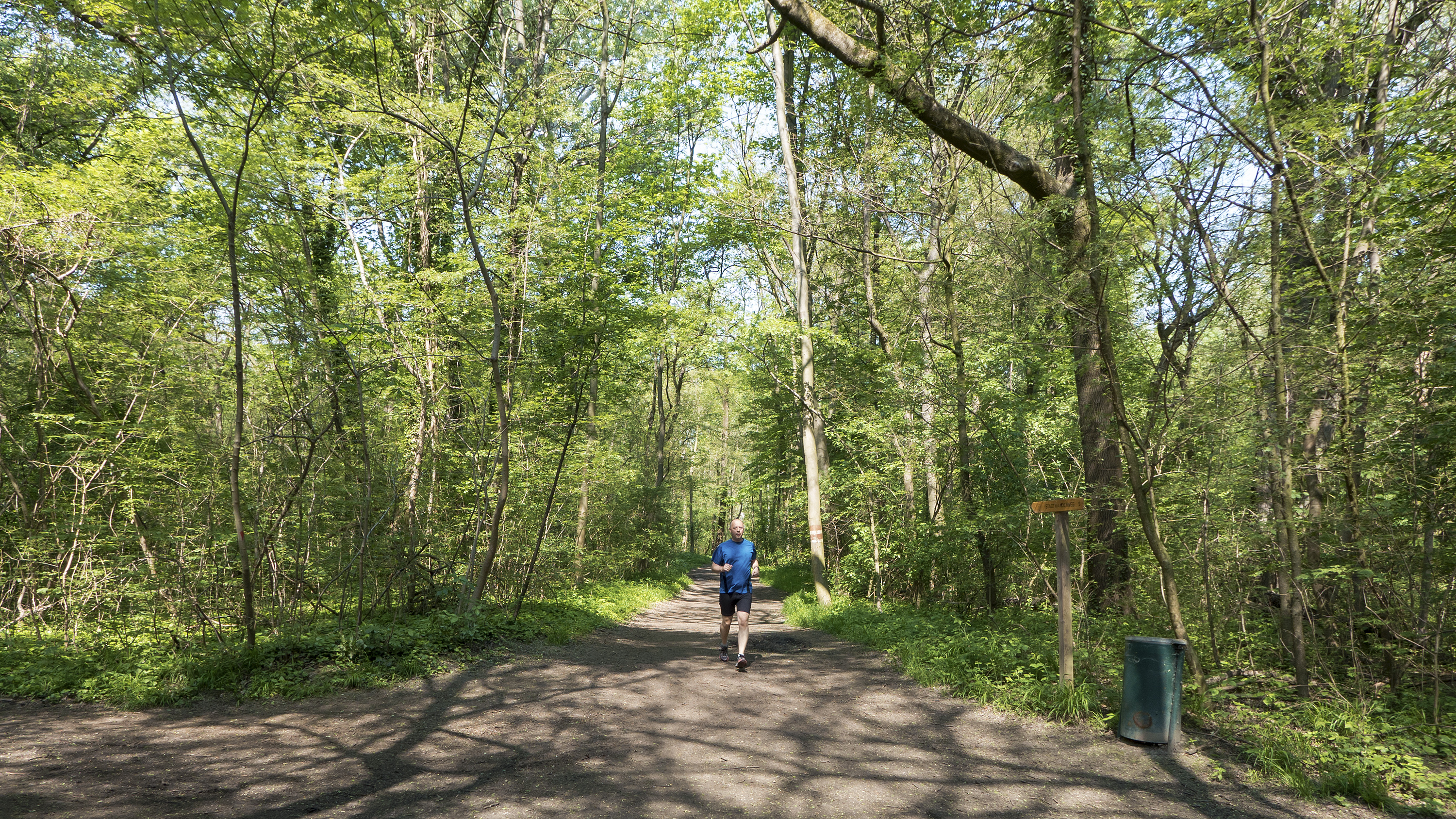 Southeastern part of the Wiener Prater in Vienna 2